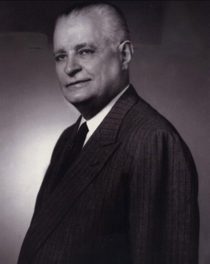 Amadeo Barletta Barletta, successful Italian entrepreneur who migrated to the Caribbean in the early years of the twentieth century